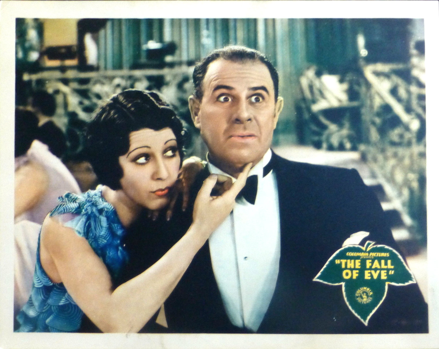 Lobby card for the 1929 film The Fall of Eve.